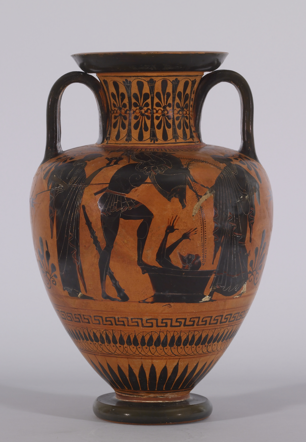 The scene depicts the third of Herakles' labors, the capture of the wild Erymanthian boar. The victorious hero has brought the boar alive to the king who had demanded the labor, and, as Herakles holds the boar aloft, King Eurystheus cowers below in a storage jar. Two female figures watch the scene. On the back, the wine-god Dionysus holds out a "kantharos" (a deep two-handled cup) of wine to a maenad, one of his female followers, flanked by dancing satyrs.